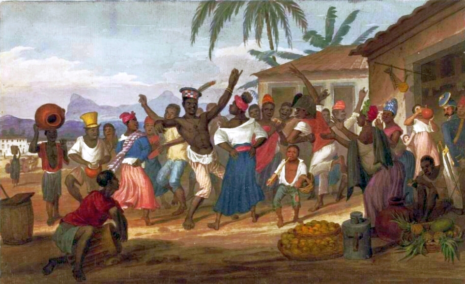 Negro fandango scene at Campo de St. Anna, Rio de Janeiro. Watercolour; 21 x 34 cm.